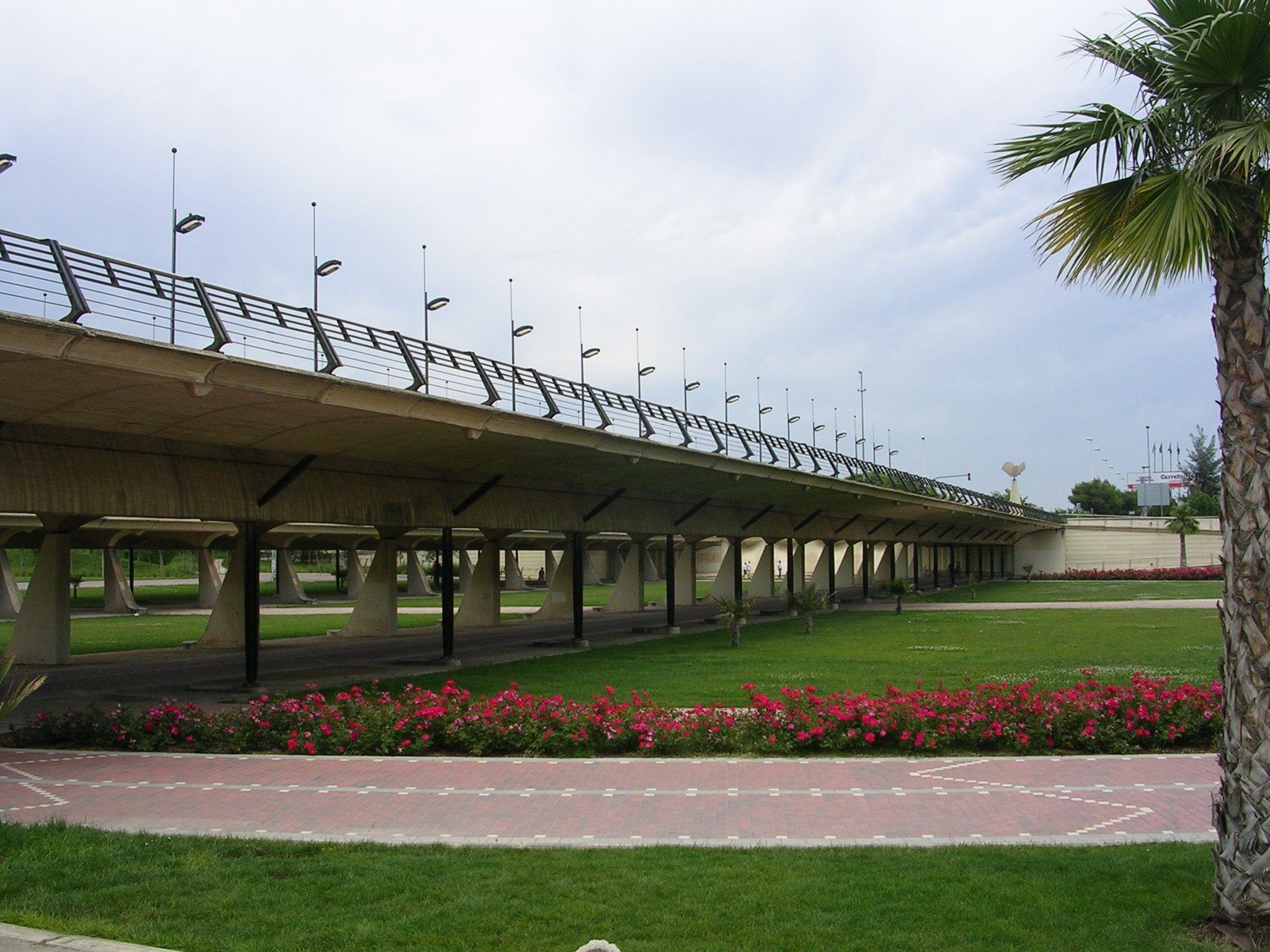 October 9 Bridge, Valencia, Spain. Designed by Santiago Calatrava.